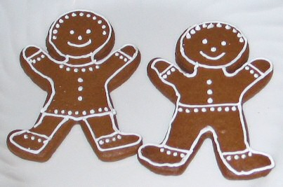 Crispy Gingerbread Cookies See Recipe Photo by alcinoe